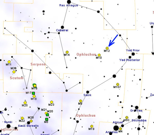 Map of M12